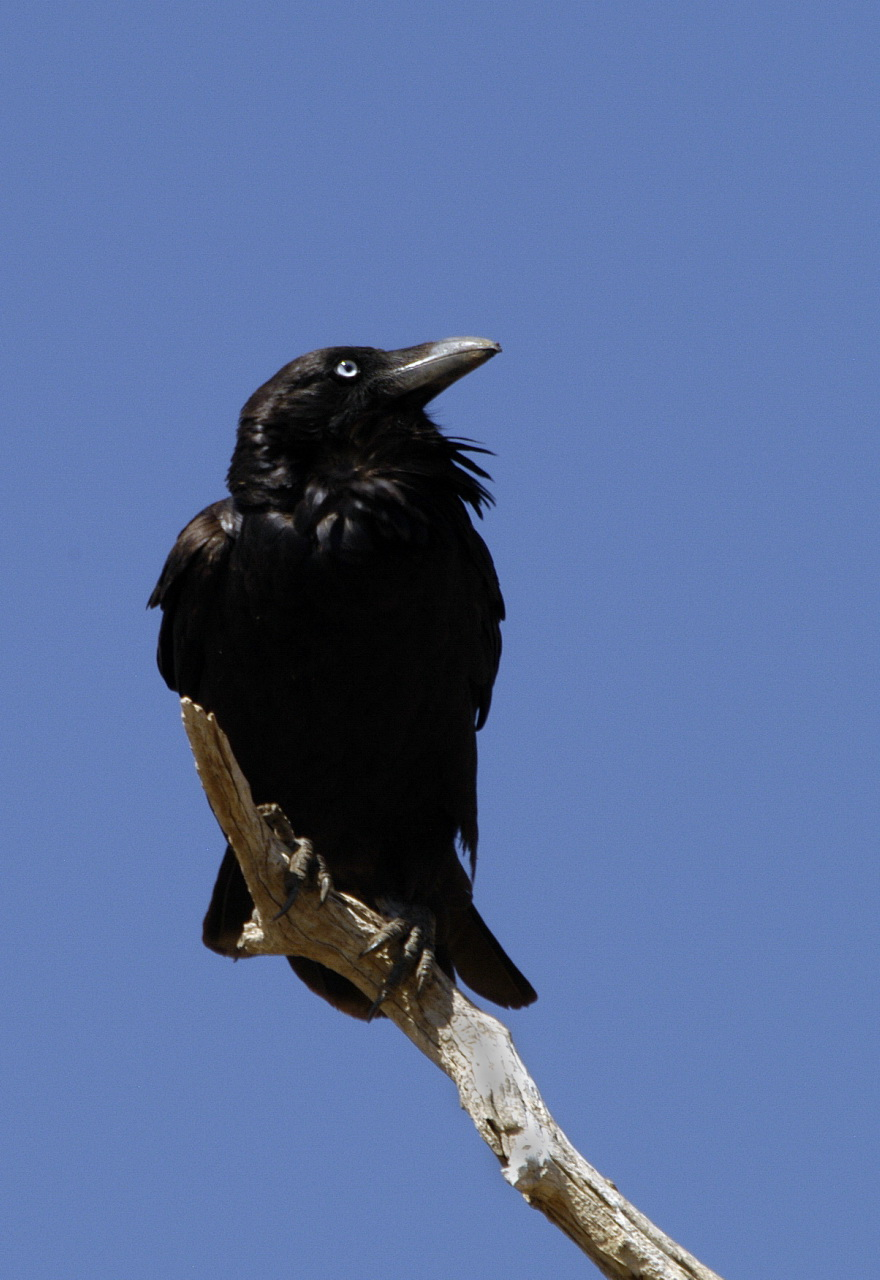 Australian Raven (Corvus coronoides) at Lake Eyre, Australia.